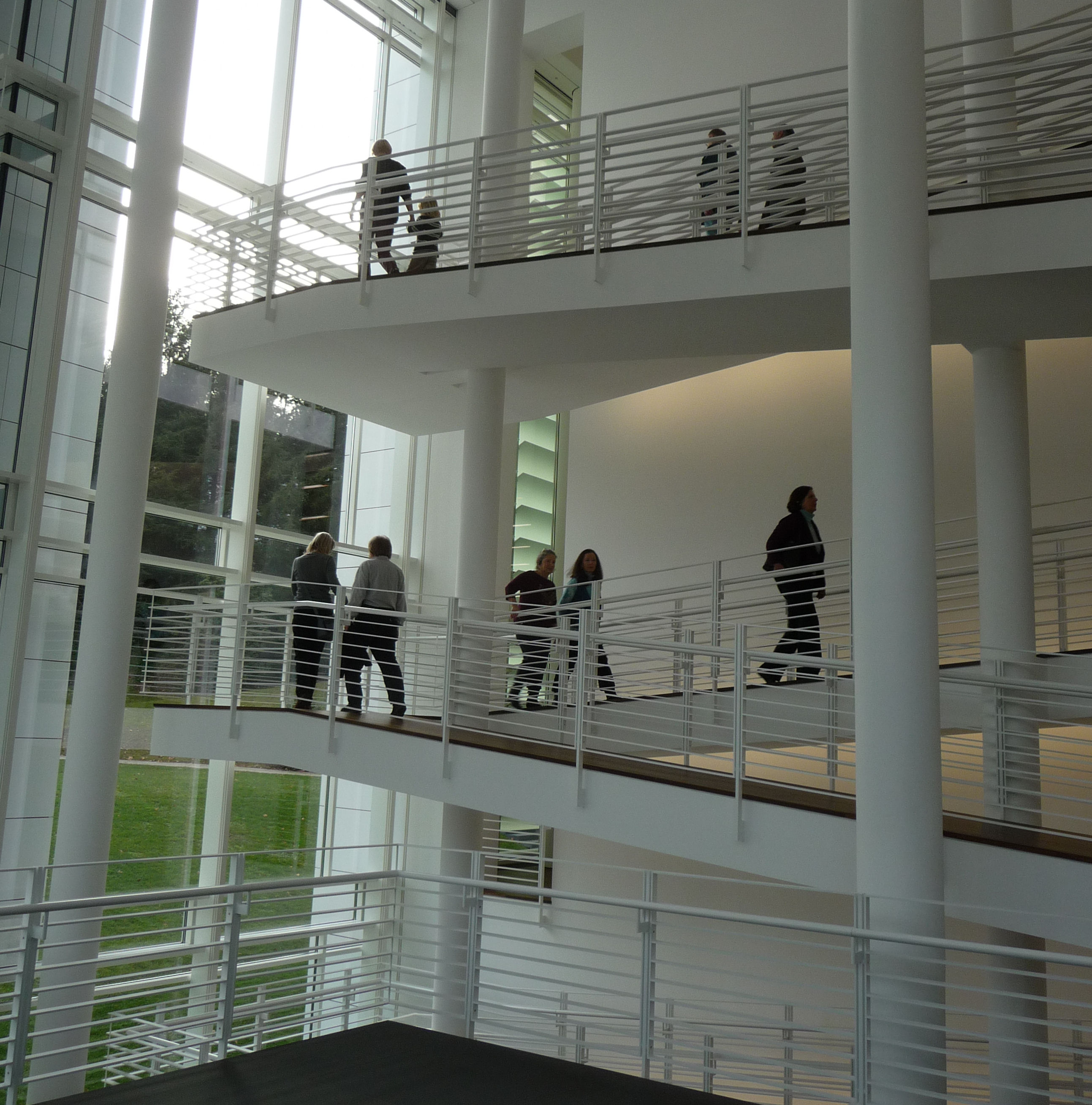 Burda-Museum in Baden-Baden, Germany